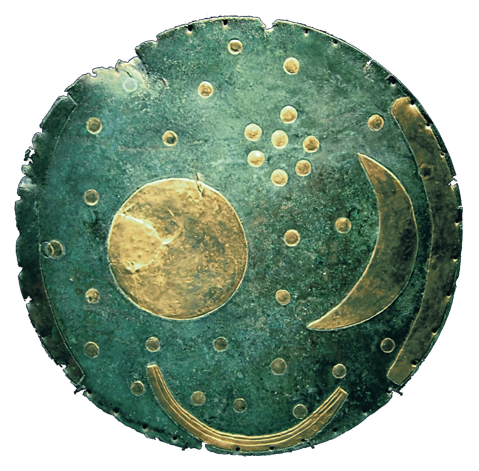 Nebra sky disk